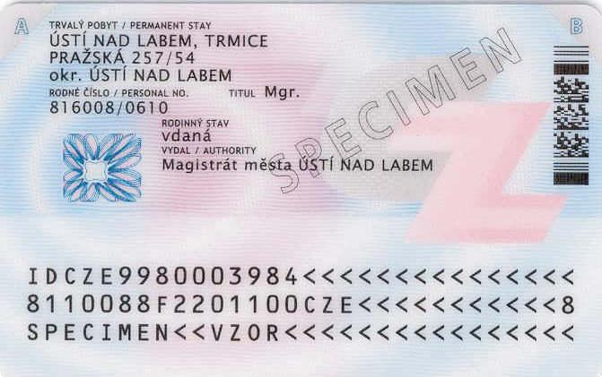 Czech Republic - Identification Card